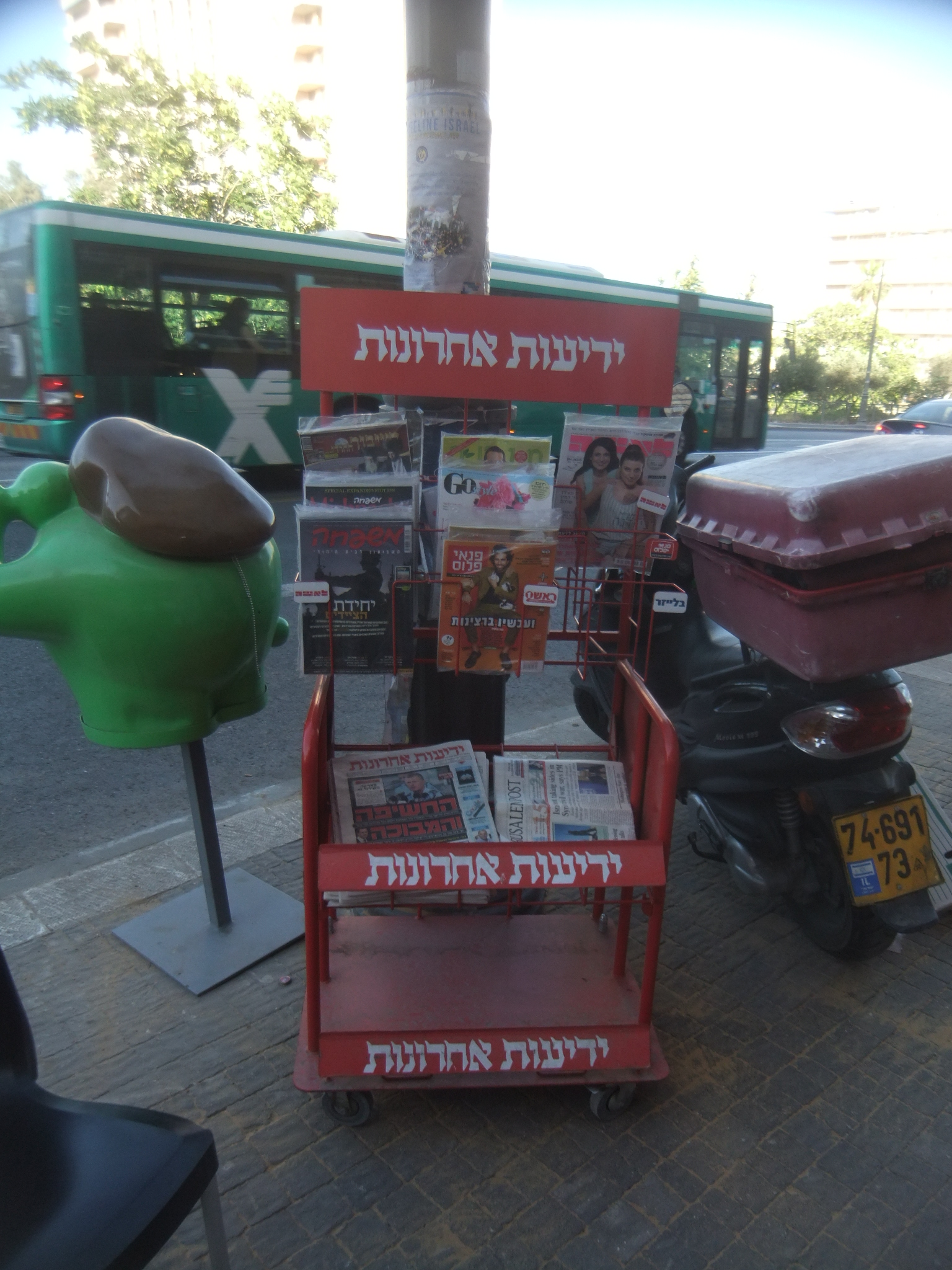 Yedioth Ahronoth stand on king George street